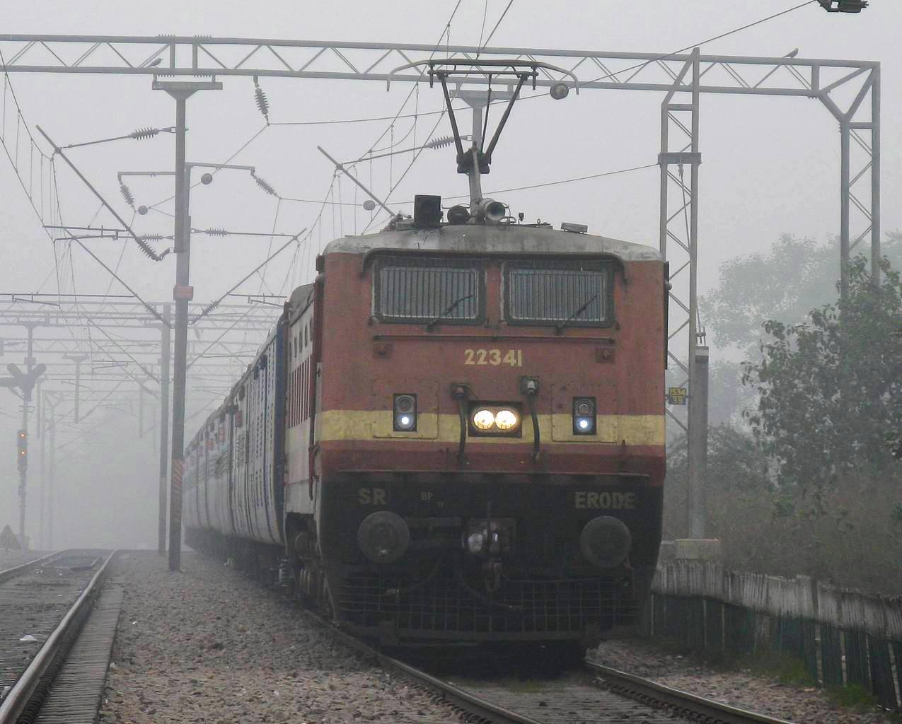 (Grand Trunk)GT Express near Delhi